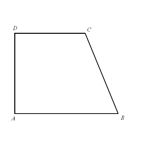 Trapezoid with right angles